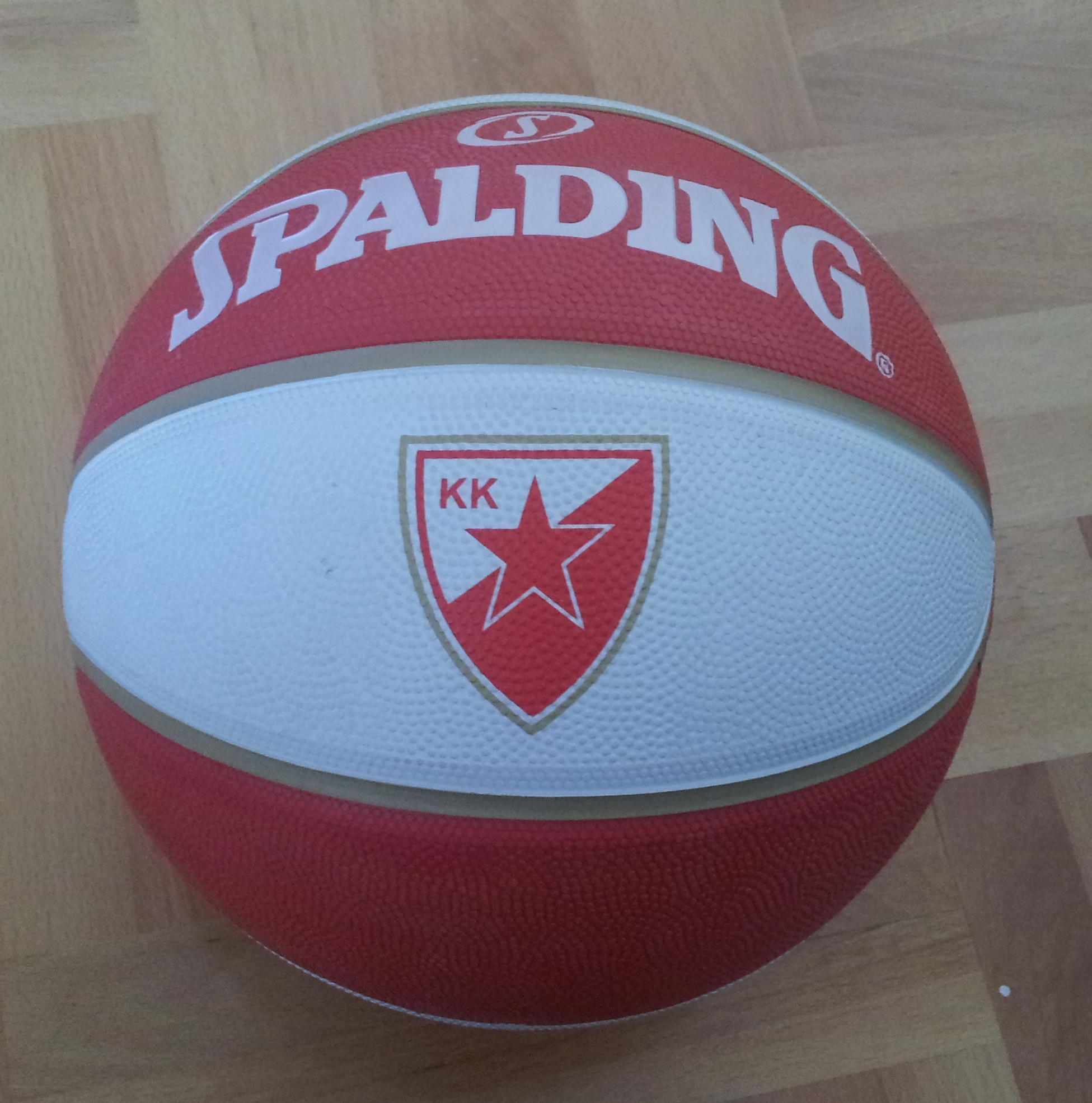 Red star basketball, shared befre the Eurleague games in 2014/15